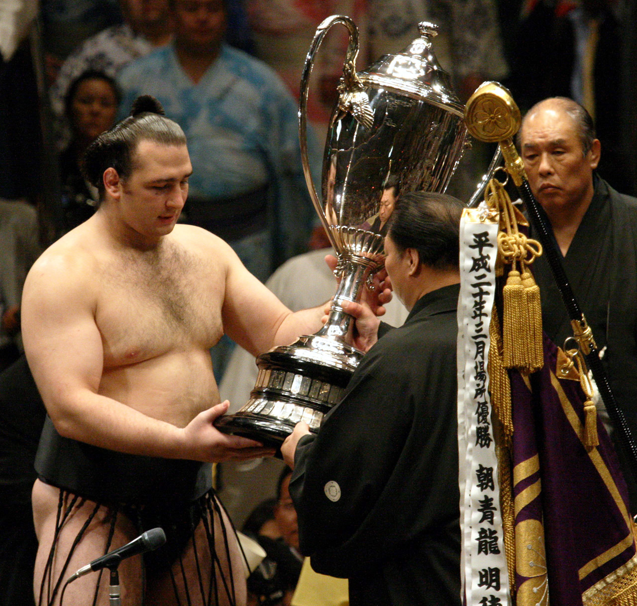 Kotoōshū (Sadogatake stable) winning the Emperor's Cup in the May 2008 tournament. The presenter was Kitanoumi-oyakata (Kitanoumi), the chairman of the Japan Sumo Association, and Hanaregoma-oyakata (right, Kaiketsu) supported it.